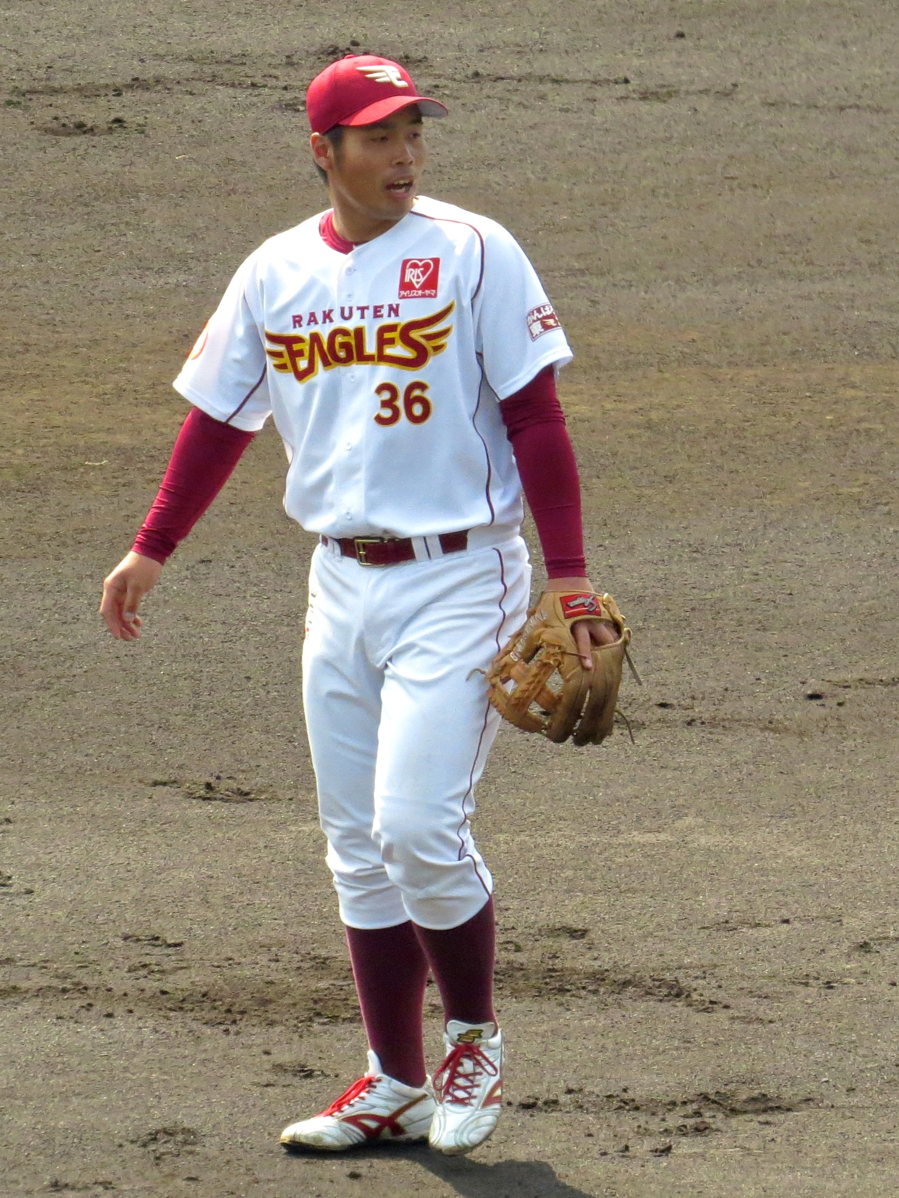 Yasuhito Uchida, infielder of the Tohoku Rakuten Golden Eagles, at Saitama Municipal Urawa Baseball Stadium